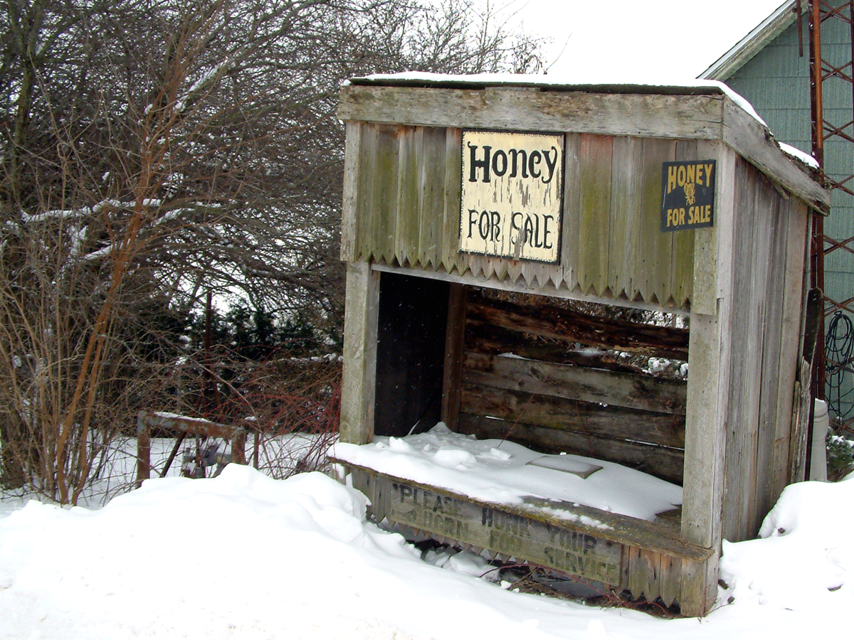 Snow covers a derelict stall in the small town of South Raub, Indiana. The signs read, "Honey for sale. Please honk your horn for service."